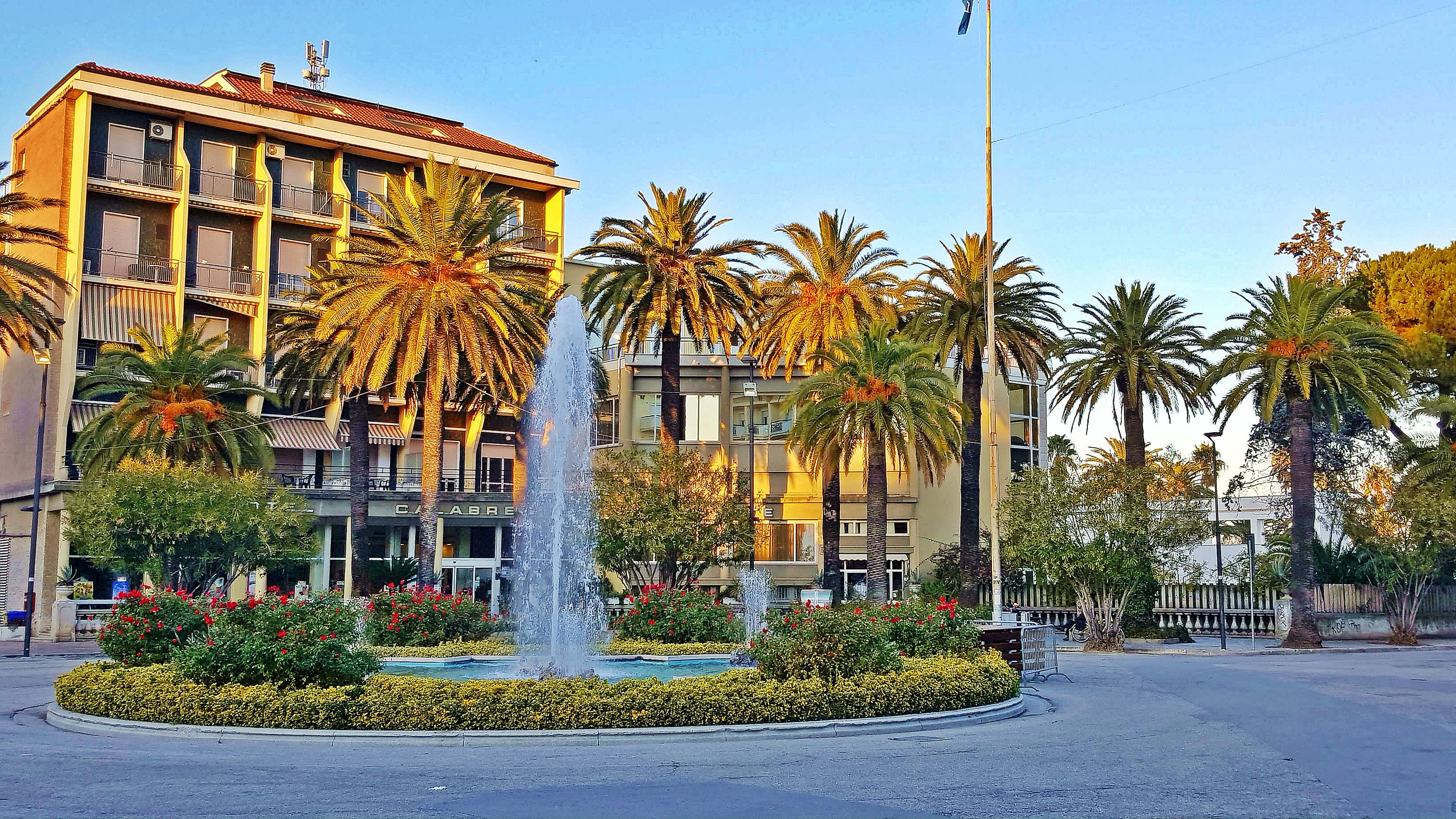 San Benedetto del Tronto, Piazza Carlo Giorgini and its typical fountain